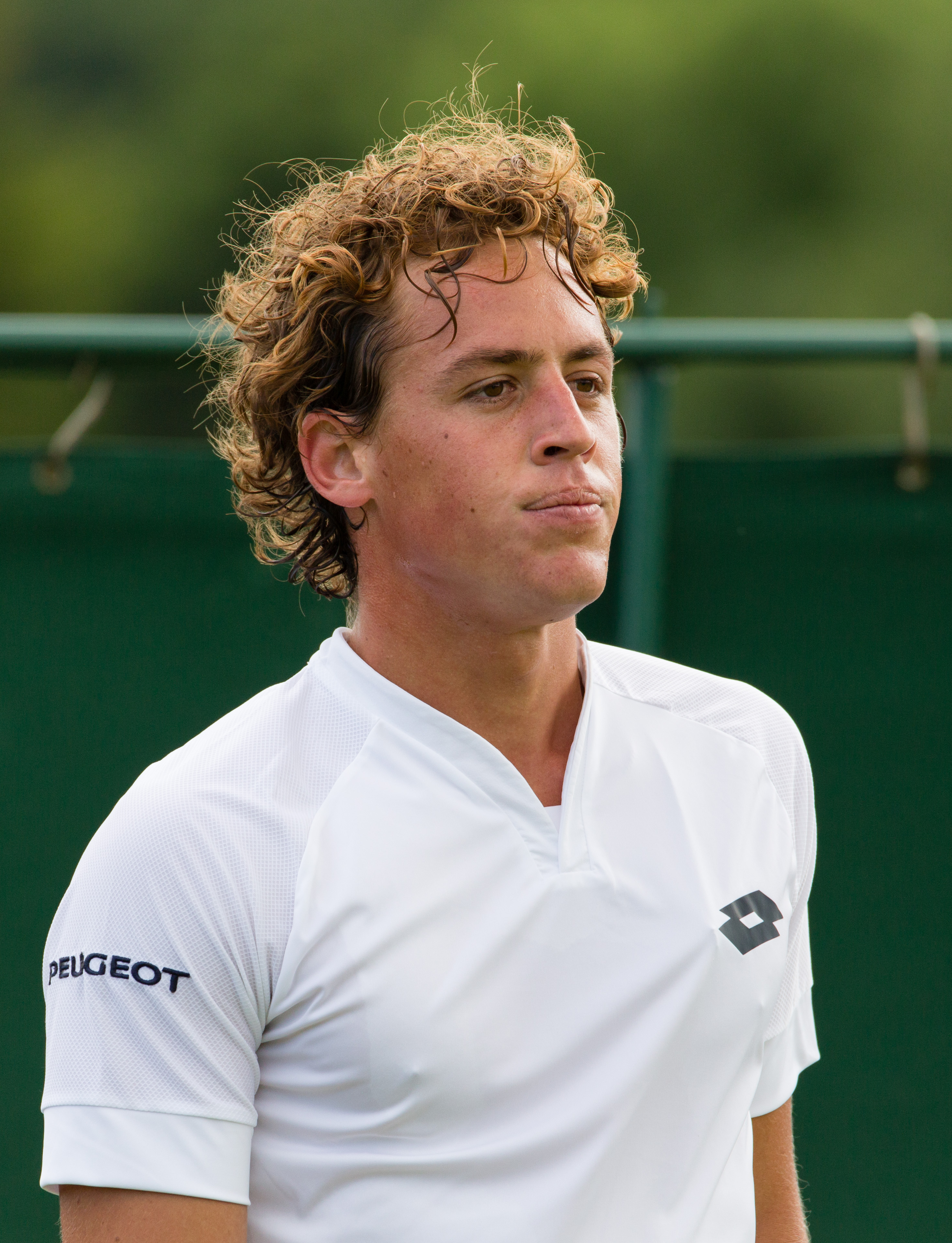 Roberto Carballés Baena competing in the first round of the 2015 Wimbledon Qualifying Tournament at the Bank of England Sports Grounds in Roehampton, England. The winners of three rounds of competition qualify for the main draw of Wimbledon the following week.